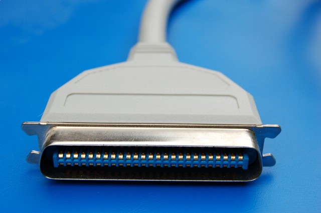 (Photo by Ian Wilson)